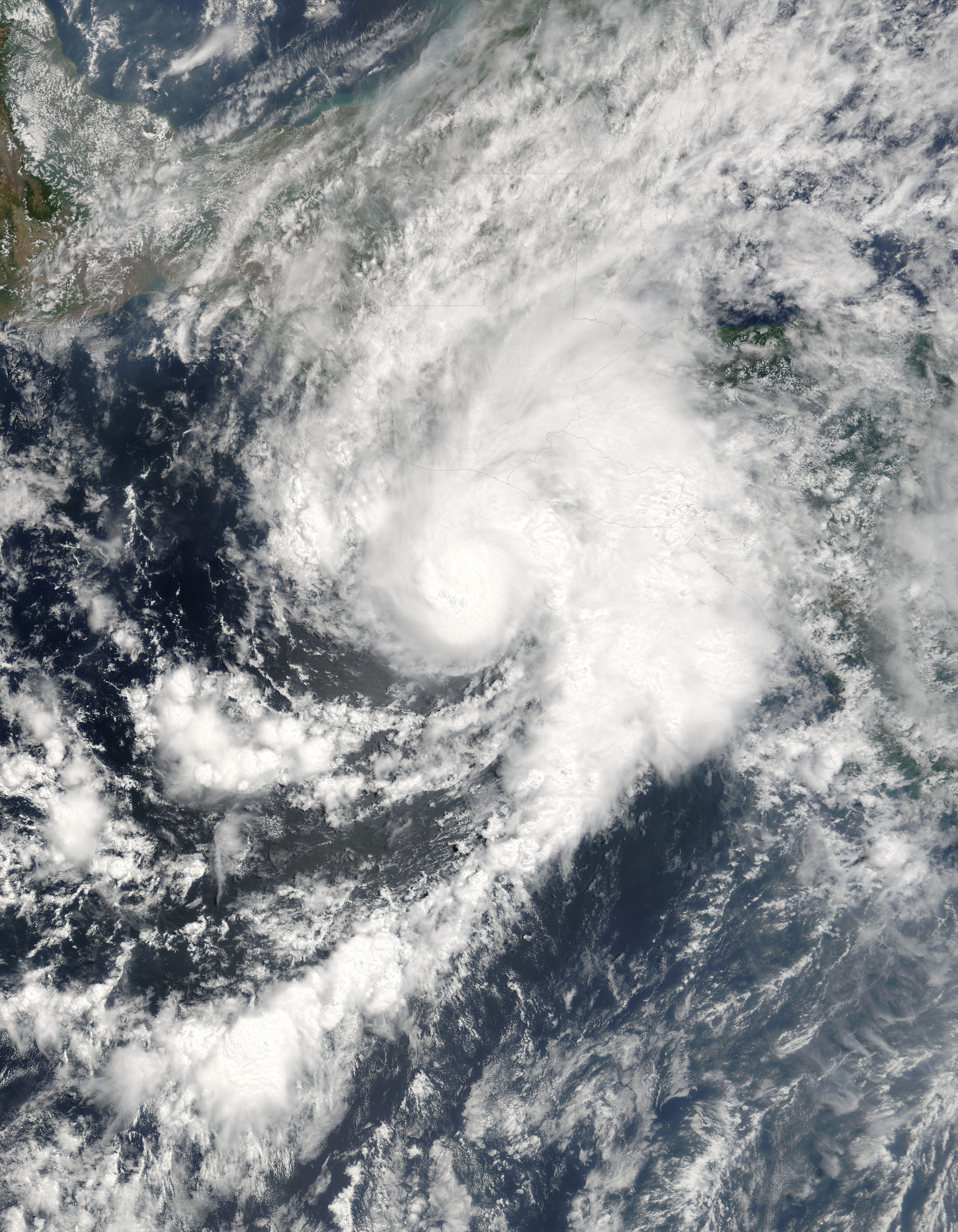 Hurricane Adrian was zeroing in on the Pacific coast of El Salvador and Guatemala when the Moderate Resolution Imaging Spectroradiometer (MODIS) on NASA's Terra satellite captured this image on May 19, 2005, at 10:45 a.m., Pacific Daylight Time. This highly unusual storm is the first of the 2005 Pacific hurricane season, having formed on May 17, just two days after the season officially started. The storm intensified over a pocket of warm water and moved east toward Guatemala and El Salvador. Adrian reached hurricane status about the time this image was acquired. Hurricane Adrian is unusual not because of its strength - it's actually a weak storm� or because of its timing, though no tropical storm has ever struck Central America this early in May; rather, Adrian is rare because of its path. Most hurricanes that form in the Pacific head north into Mexico or west to dissipate over the ocean. Adrian moved east. Since 1966, only four cyclones have made landfall over Guatemala or El Salvador, and Adrian's current path will make it the fifth. The outer bands of clouds were already over land when MODIS captured this image. The biggest threat that Adrian poses to Central America is from the heavy rain it may dump on the region. Rugged mountains stretch across El Salvador, Guatemala, and Honduras, and heavy rain could trigger flash floods and mudslides. If Adrian survives its encounter with the mountains of Central America, it could emerge as a tropical system in the Caribbean. Occasionally, storms will cross from the Atlantic into the Pacific, but it is rare for a storm to move from the Pacific into the Atlantic, as Adrian could. The large version of this image has a resolution of 250 meters per pixel. The image is available in additional resolutions from the MODIS Rapid Response Team.